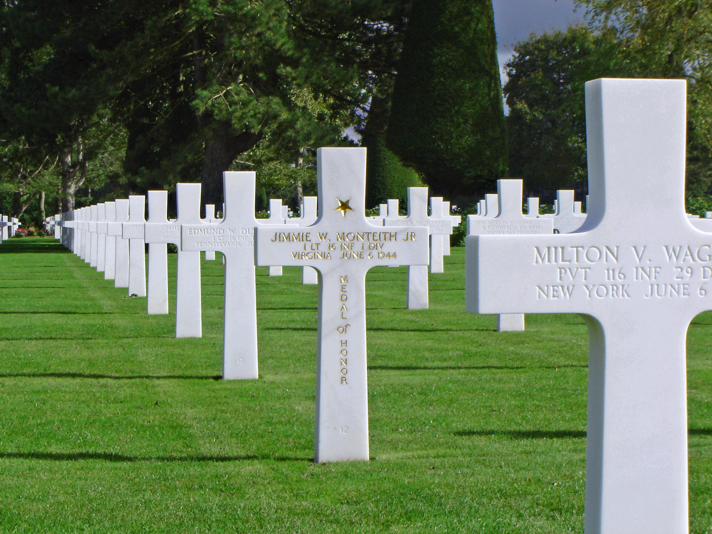 Grave marker of Medal of Honor recipient Jimmie W. Monteith Jr. at the World War II Normandy American Cemetery and Memorial.